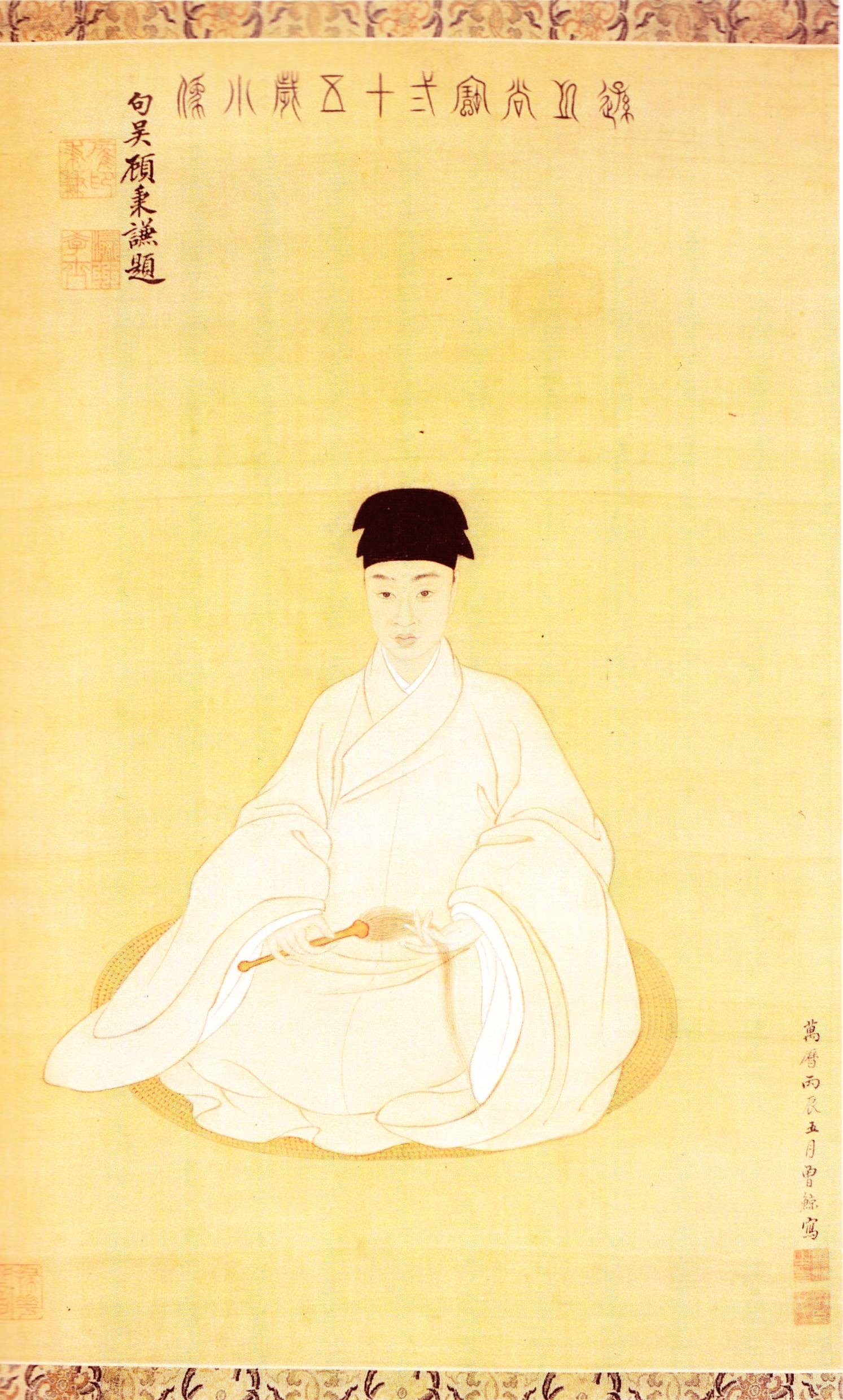 Portrait of Wang by Zeng Jing (1616) Ming Dynasty. Tianjin Art Museum.